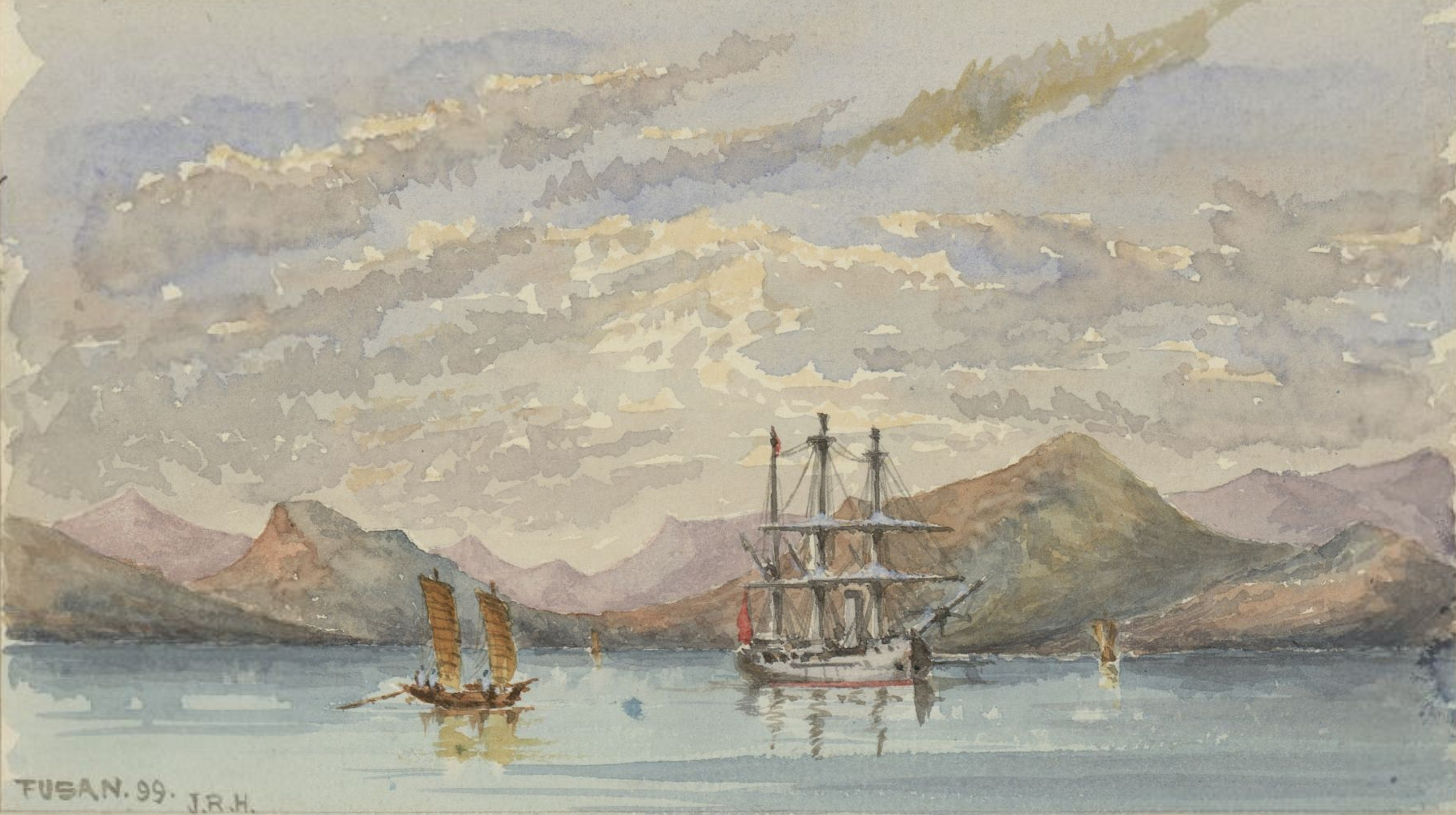 A volume of drawings of the Far East.